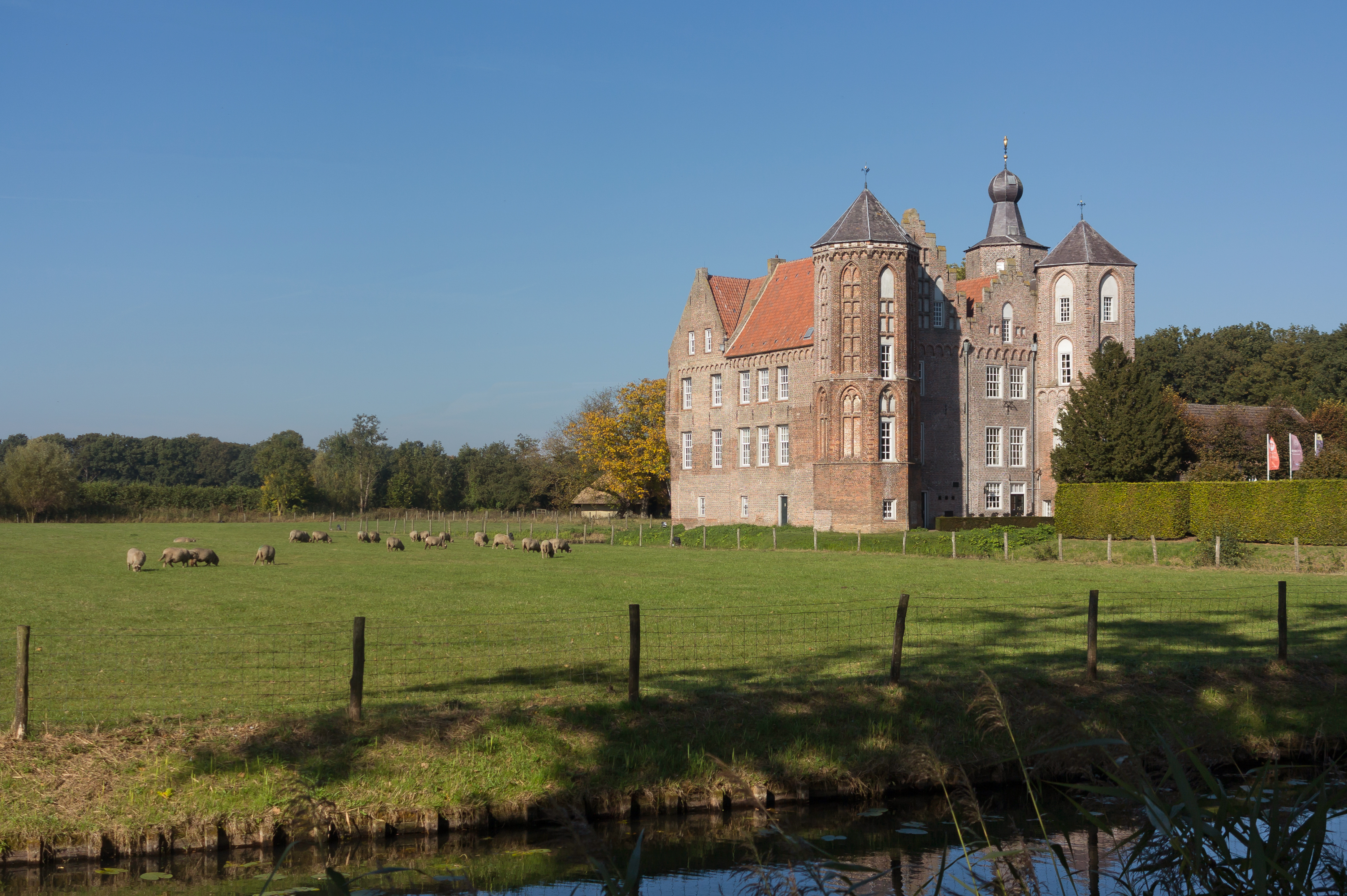 Croy, castle: kasteel Croy